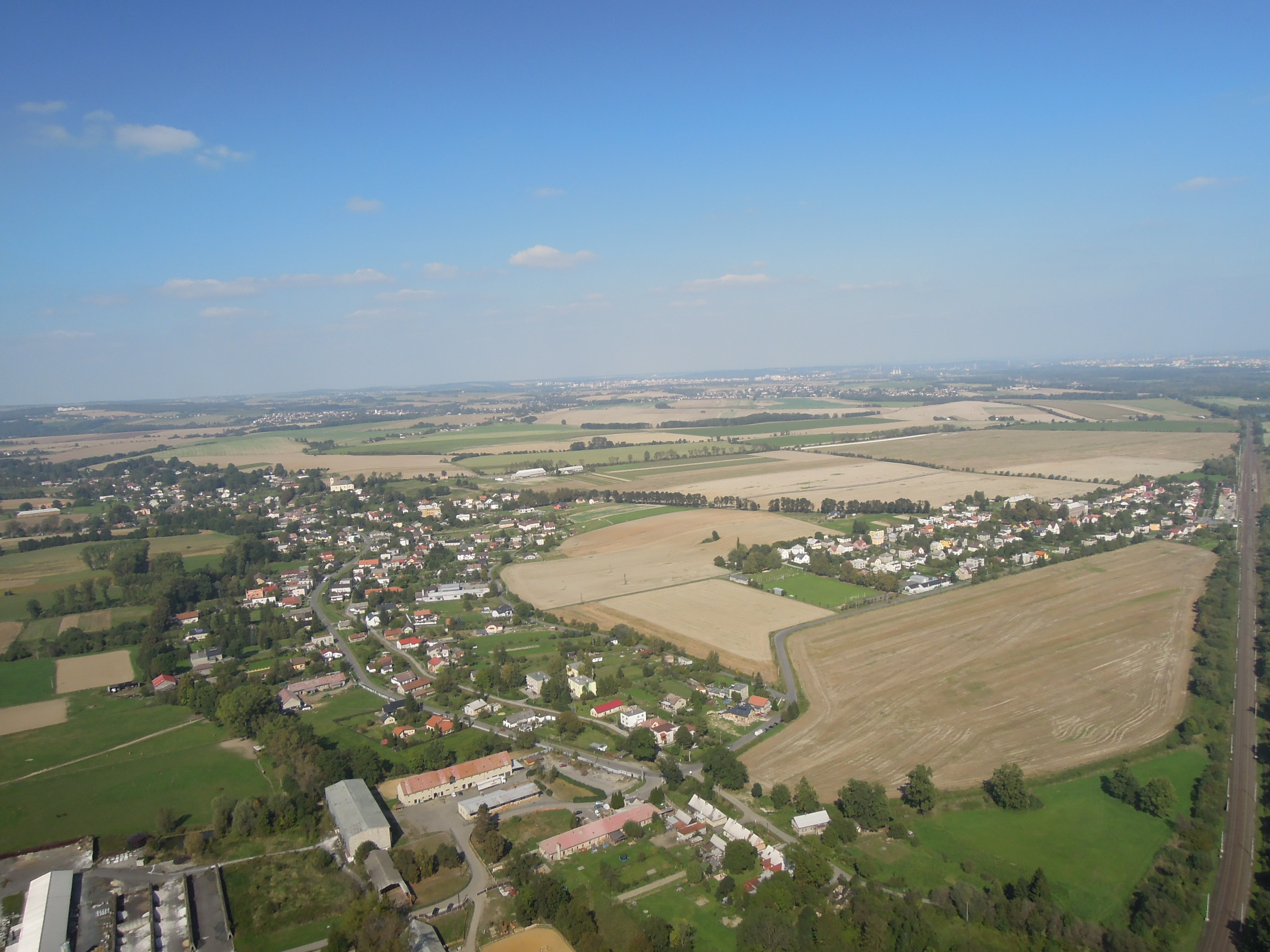 View of Jistebník, Moravian–Silesian Region, Czech Republic; photo was taken from Robinson R44 helicopter